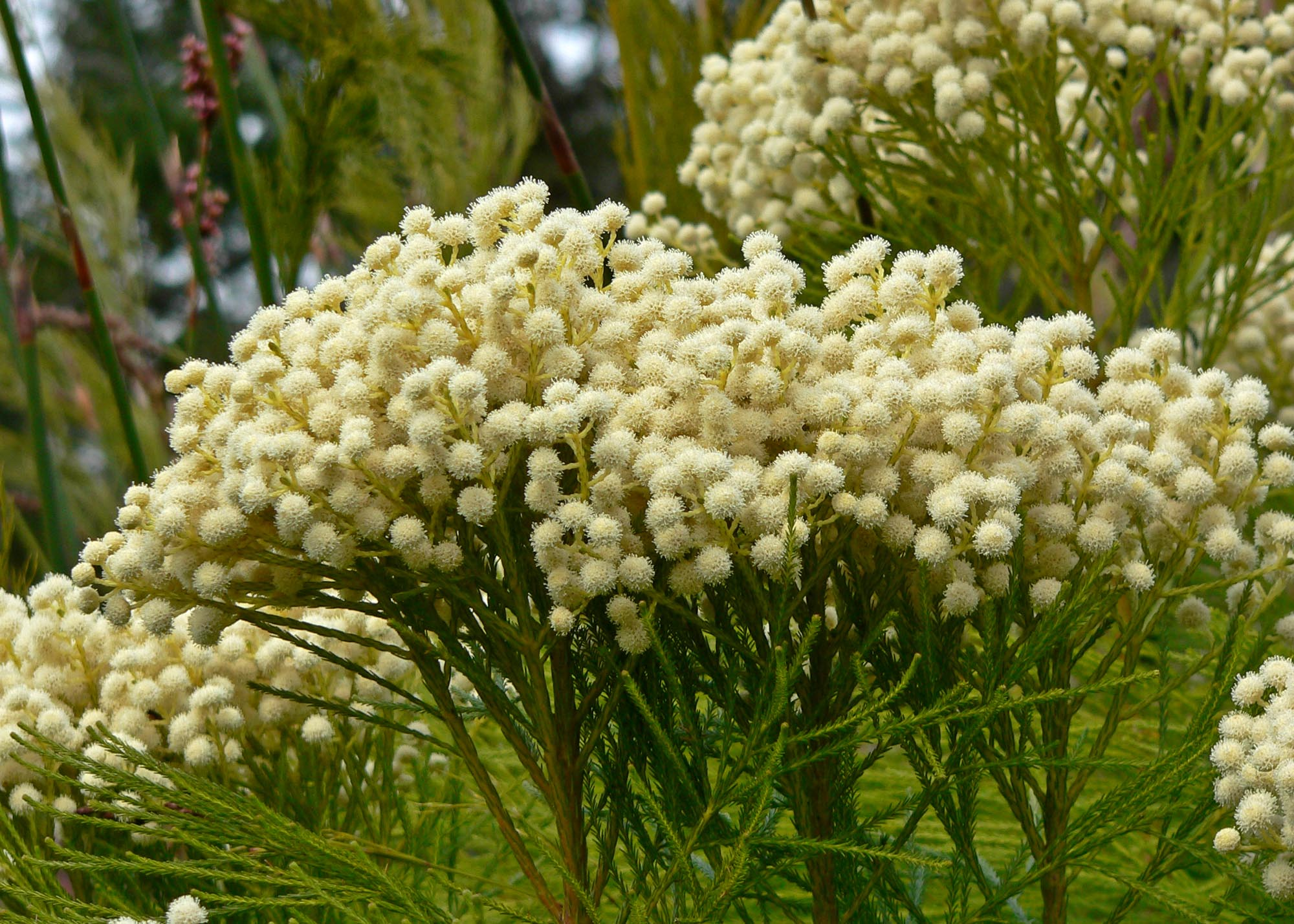 Photo of Berzelia lanuginosa at the University of California Botanical Garden